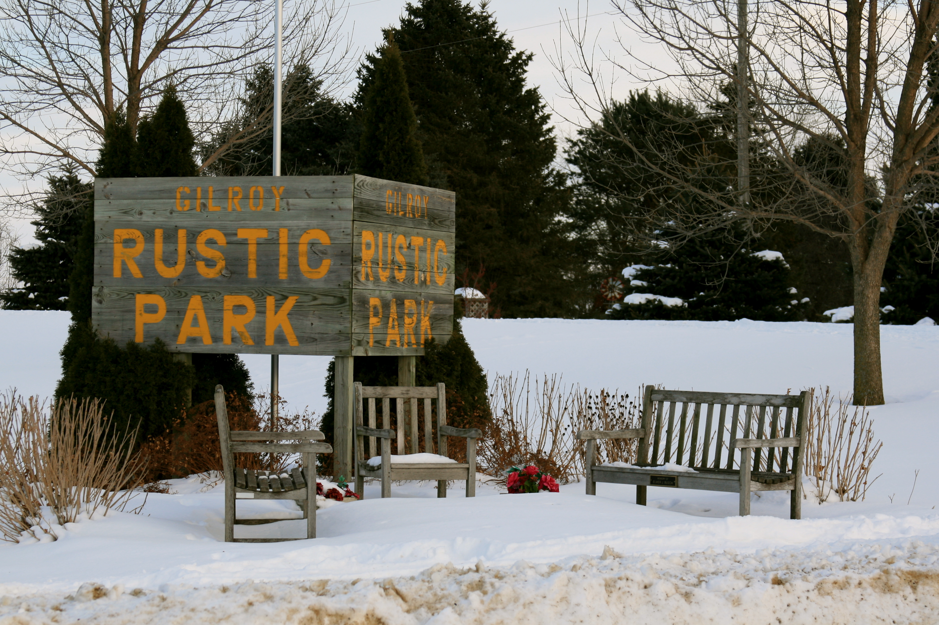 Sign for Rustic Park in Lost Nation, Iowa